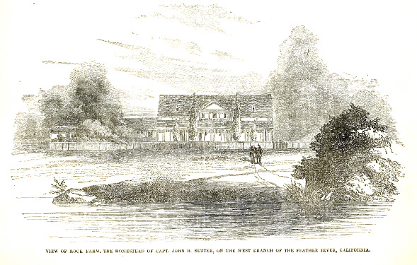 View of Hock Farm, on Feather River, California